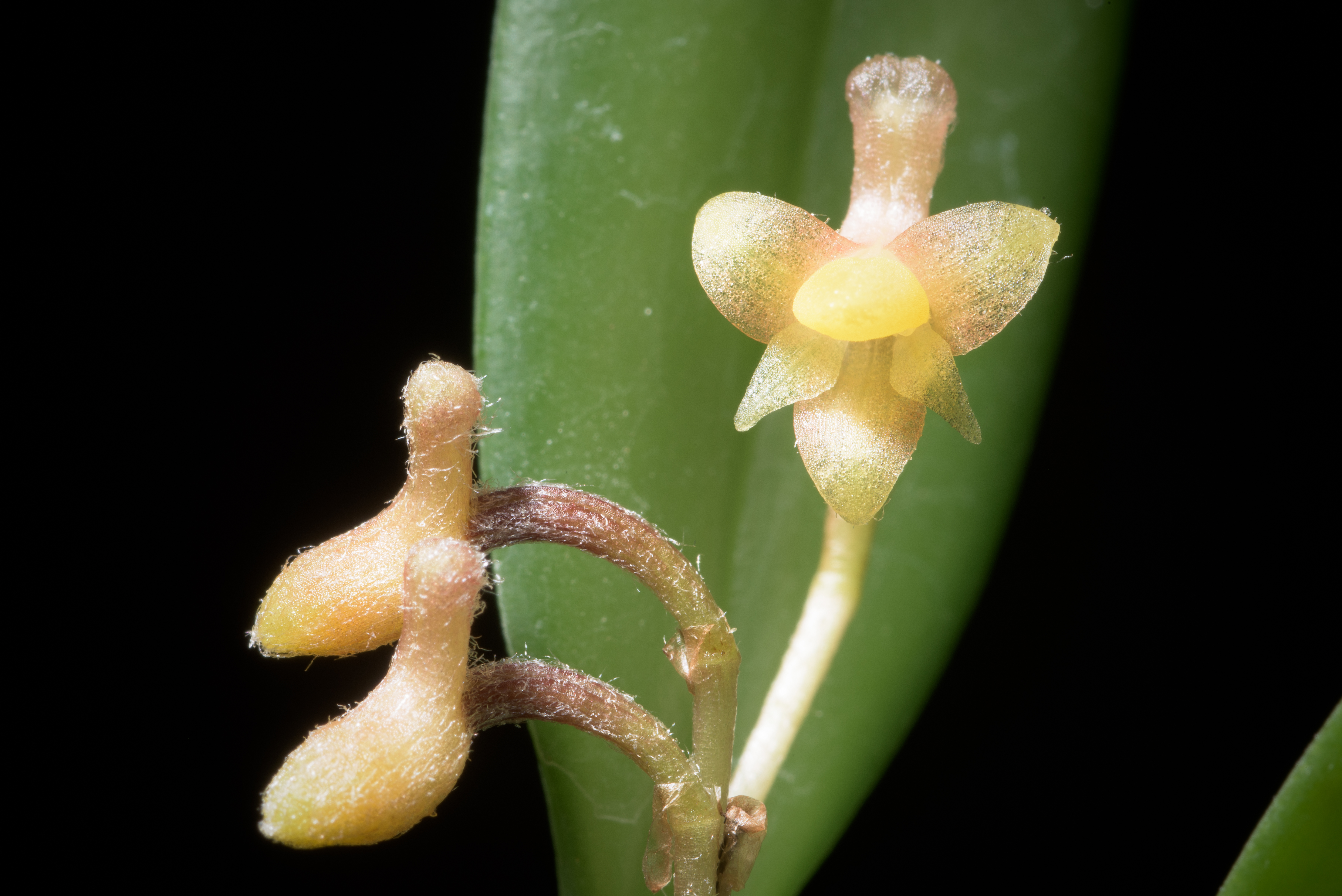 Ceratostylis backeri (wild Java) J.J.Sm., Bull. Jard. Bot. Buitenzorg, sér. 2, 9: 52 (1913)